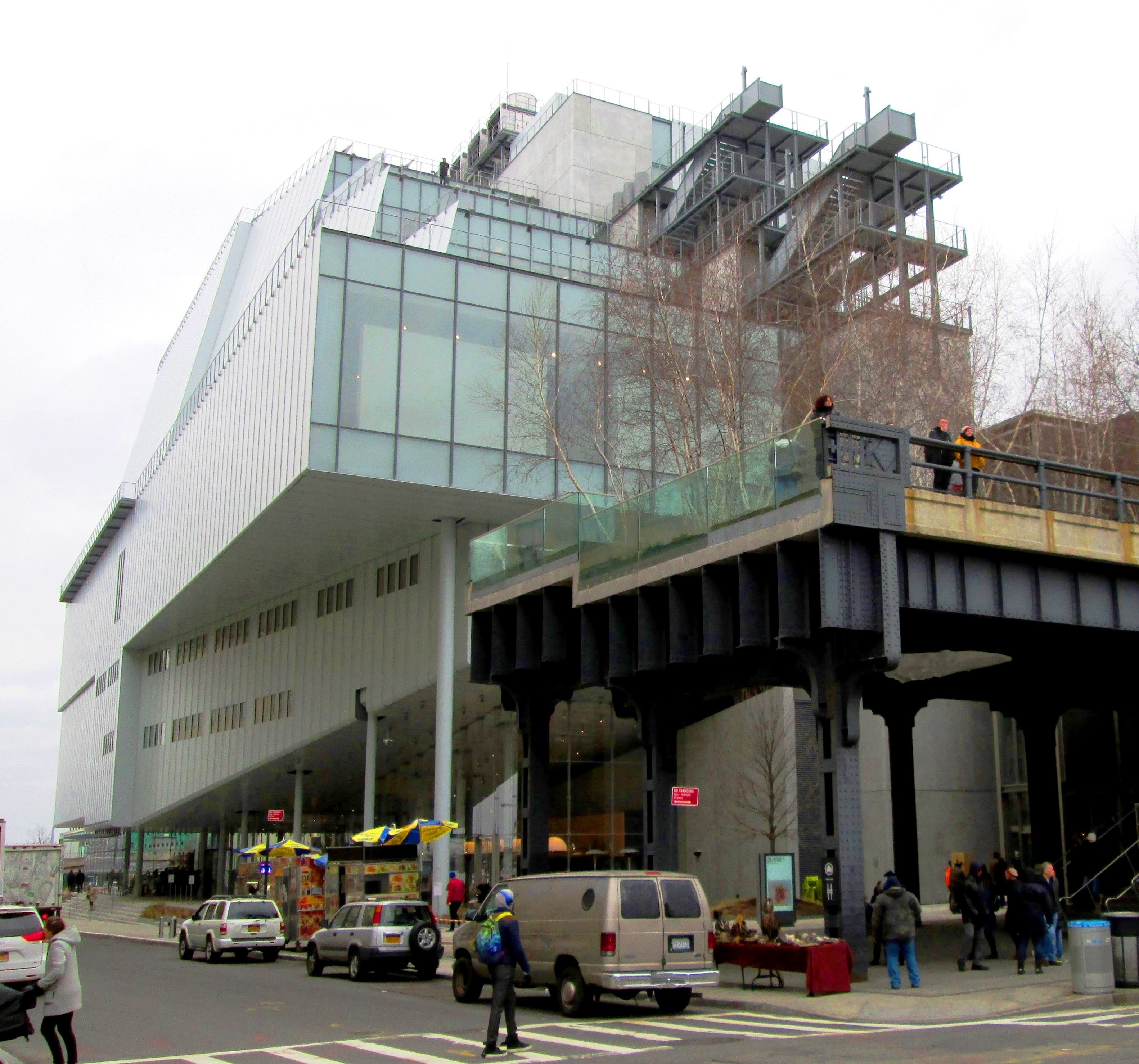 The Whitney Museum of American Art's building at 99 Gansevoort Street between Washington Street and 10th Avenue in the Meatpacking District of Manhattan, New York City, at the end of the High Line, was built in 2011-15 and was designed by Renzo Piano. The museum's old building on the Upper East Side will be used by the Metropolitan Museum of Art for at least 8 years. (Source: [1])